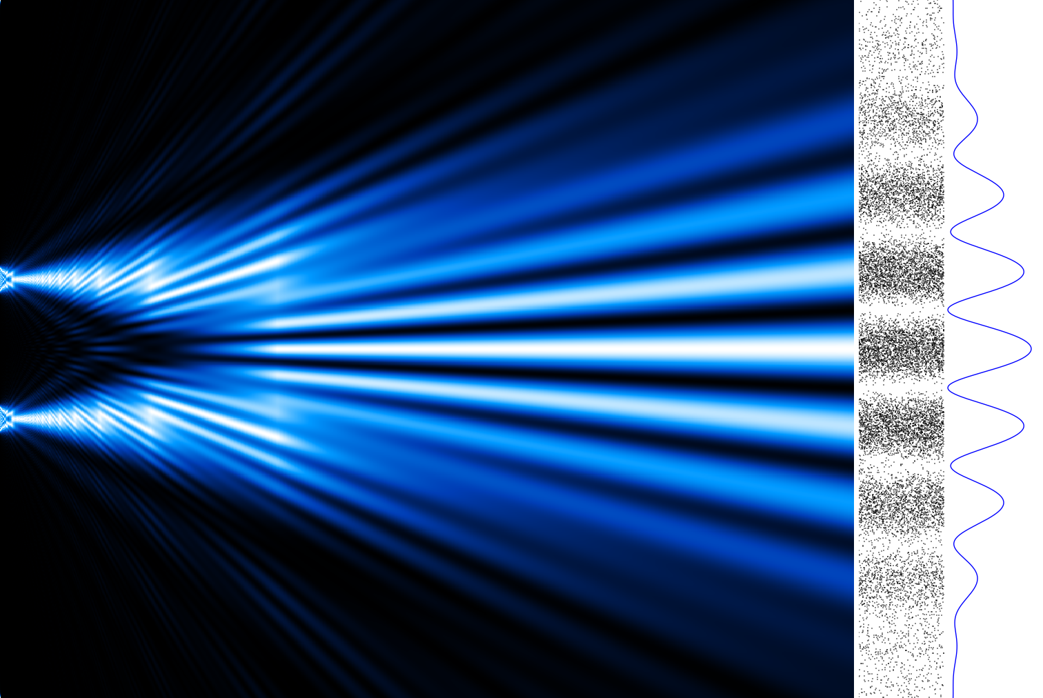 Simulation of the double-slit experiment with electron - Young interference with two slits. Data from : Claus Jönsson, Zeitschrift für Physik 161, 454-474 (1961); Claus Jönsson, 1974 Electron diffraction at multiple slits American Journal of Physics 42 4-11; - Electron wavelength = 5.595pm (E = 45 keV) - The opening of each slit is 0.2µm. The spacing between the two slits is 1µm (center-to-center). Figures from left to right; 1: evolution of the electron density (norm of the wave function) from the 2 slits to 10cm after; 2: impacts of electron on the screen 10cm after the slits; 3: electron density 10cm after the slits; Detail of computation : (French) using Feynman path integral